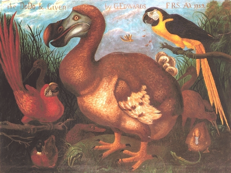 facimile of the Roelant Savery painting "The Dodo & Given" by G.Edwards, 1759. We can see a dodo (Raphus cucullatus) and several birds. The original was owned by George Edward, and given to the British Museum. This copy was owned by Masauji Hachisuka.[1]